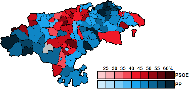 Most-voted party in Cantabria municipalities, showing vote share obtained, in the Spanish general election, 1989.